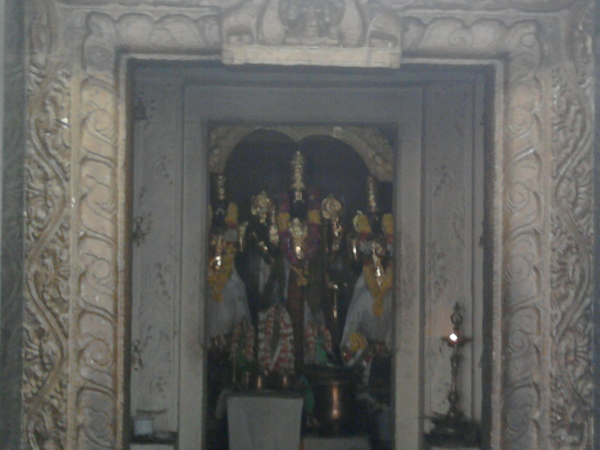 Sri Chennakesava Swami Temple, Vinjamur